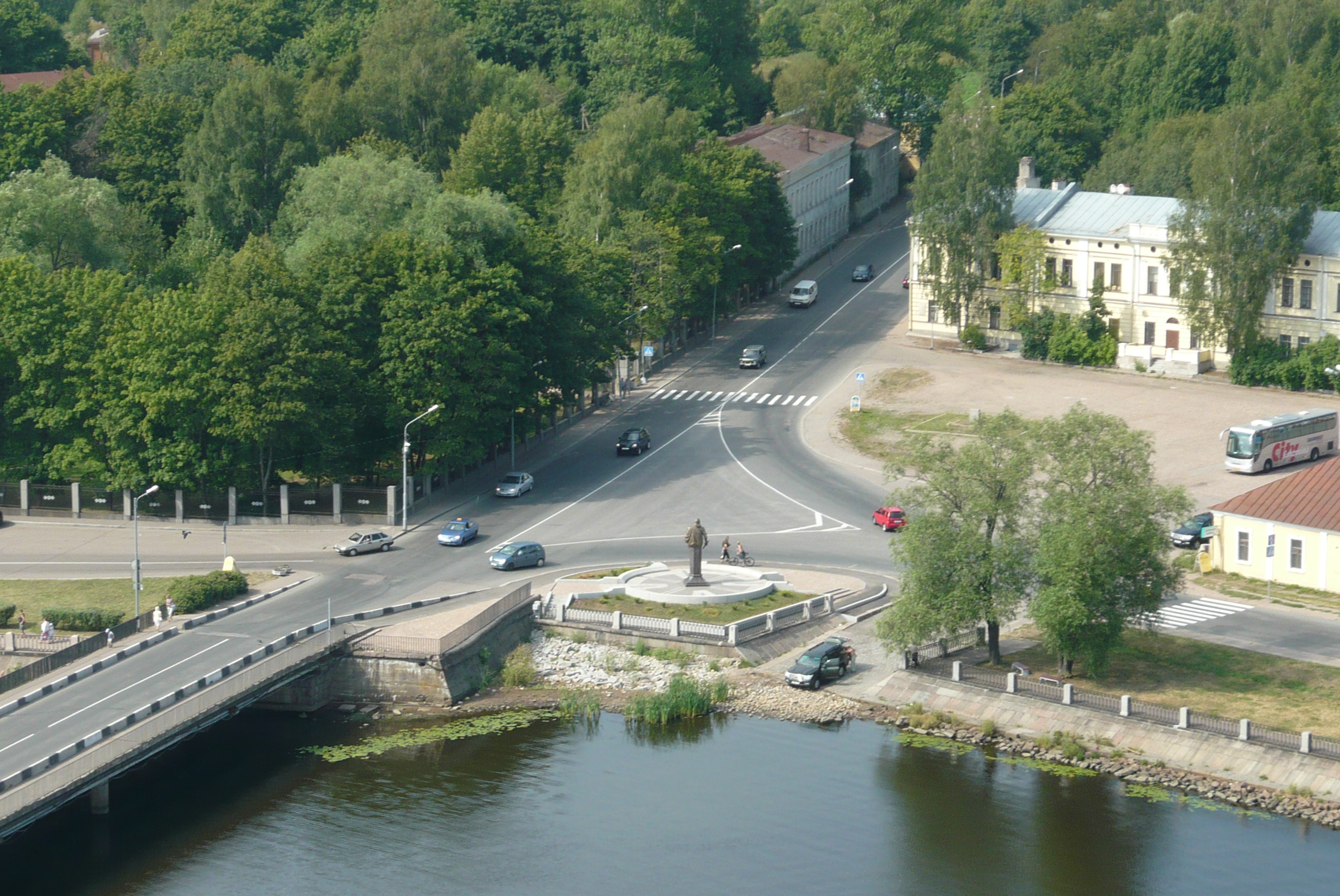 View towards west from the Vyborg Castle